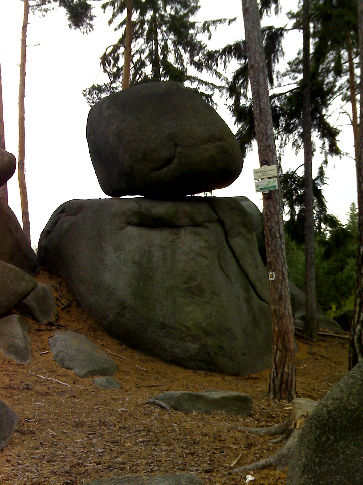 Rocking stone in Western Bohemia, near Tis u Blatna Motorola V3x 6.10.2006 my own photo